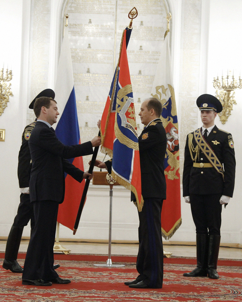 “Presentation ceremony of FSB banner, Kremlin”. December 17, 2010. From left: Russian President Dmitry Medvedev presenting personal standard of FSB director to Alexander Bortnikov, head of the Russian Federal Security Service.